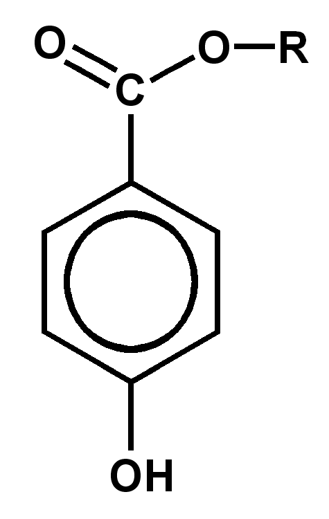 General Chemical Structure of a Paraben (an alkyl-para-hyroxybenzoate) H Padleckas created this image file on October 16-17, 2005 especially for use in the article "Paraben" in Wikimedia. H Padleckas 16:01, 18 October 2005 (UTC)